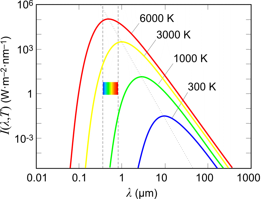 Planck's radiation law (dependence of emissivity of blackbody surface on the wavelength and temperature). Log-log scale is necessary to display the curves for a large spread in temperature. The vertical dashed lines confine the visible spectral range. The slanted dotted line indicates the Wien's displacement law.